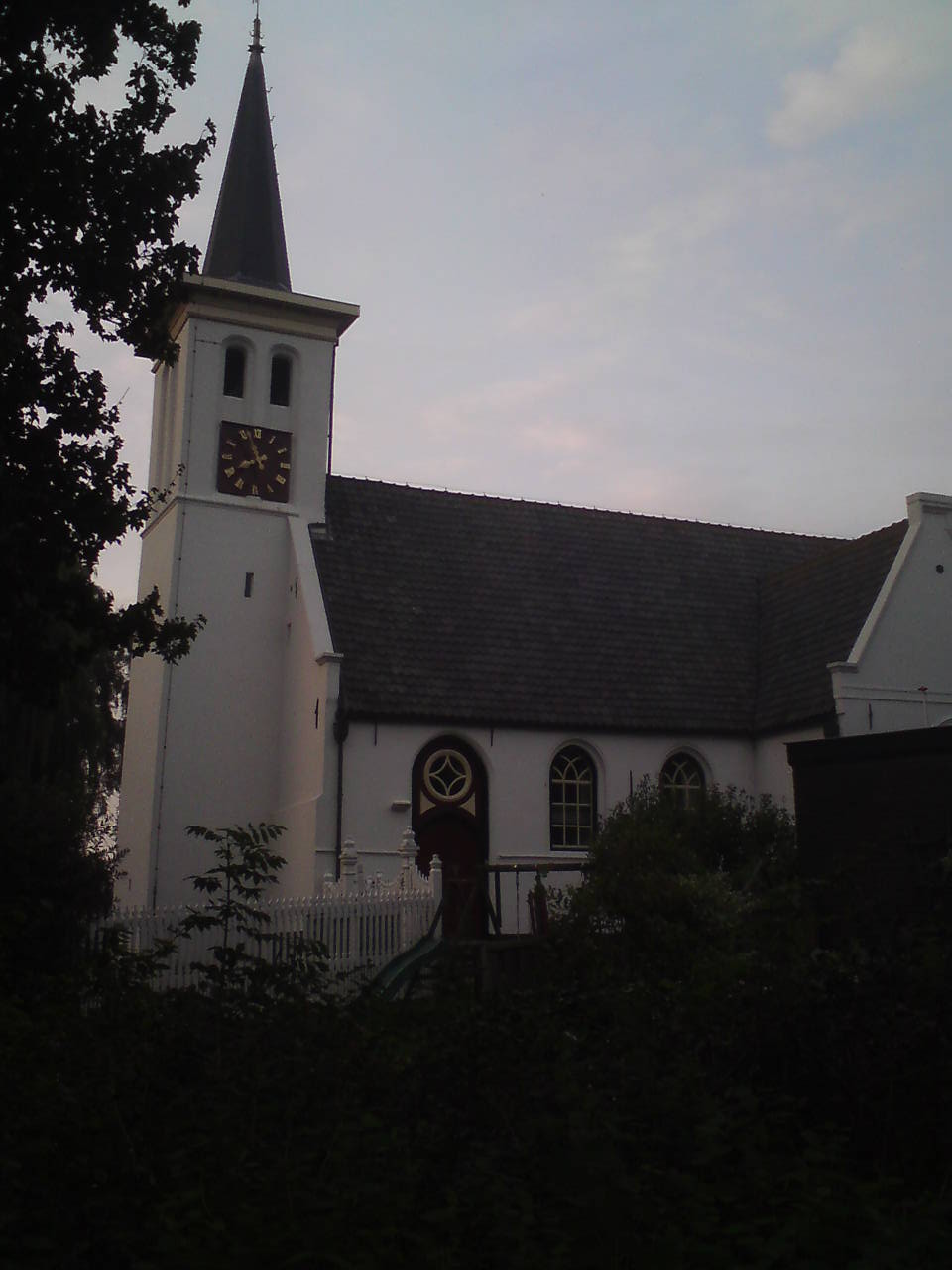 Reformd Church plus tower in Hauwert, municipality of Medemblik, North Hollan, the Netherlands. Rijksmonument: 30659 and 30660